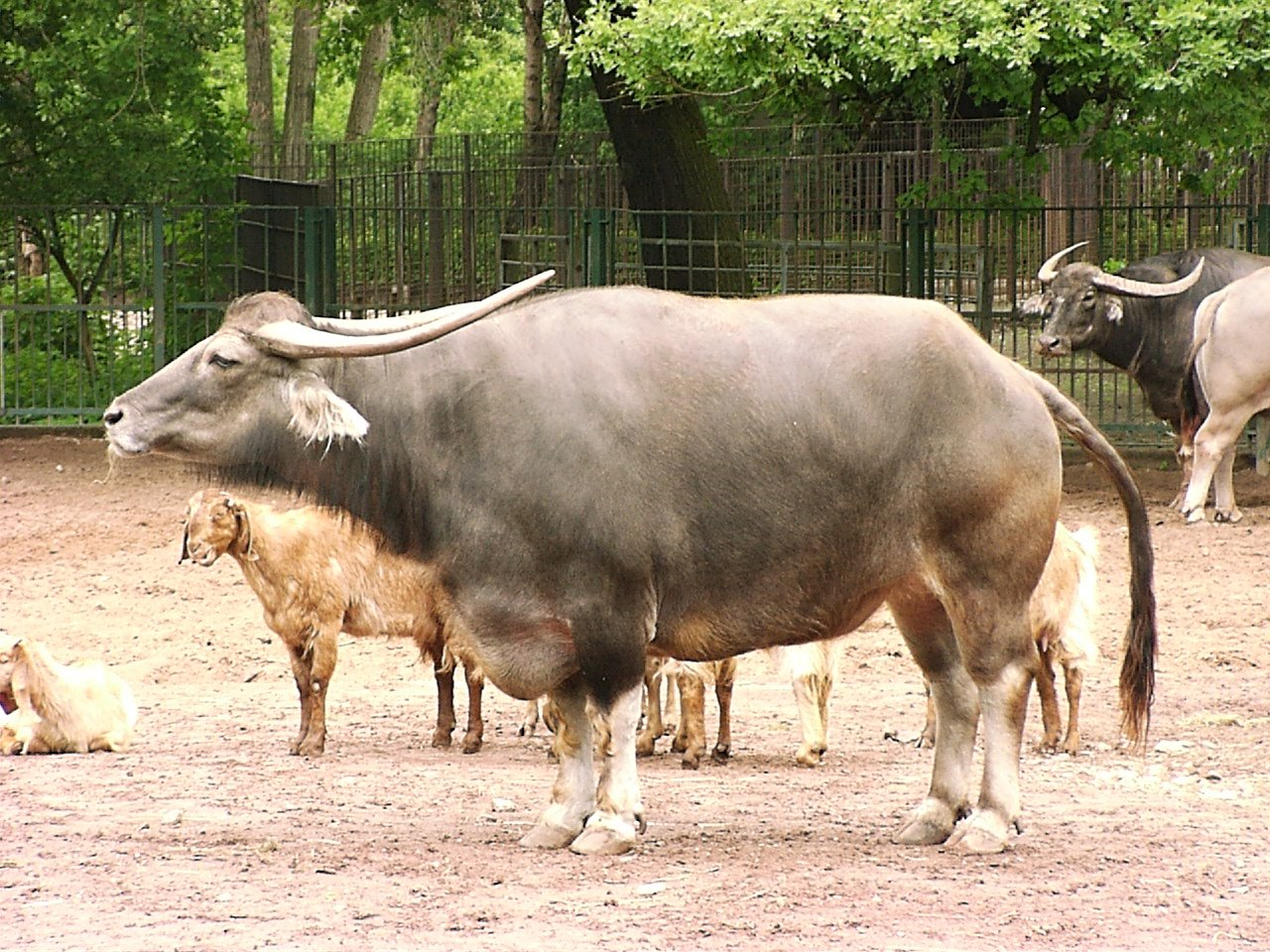 Asiatic water buffalo and goats in zoo Tierpark Berlin-Friedrichsfelde, Berlin, Germany.